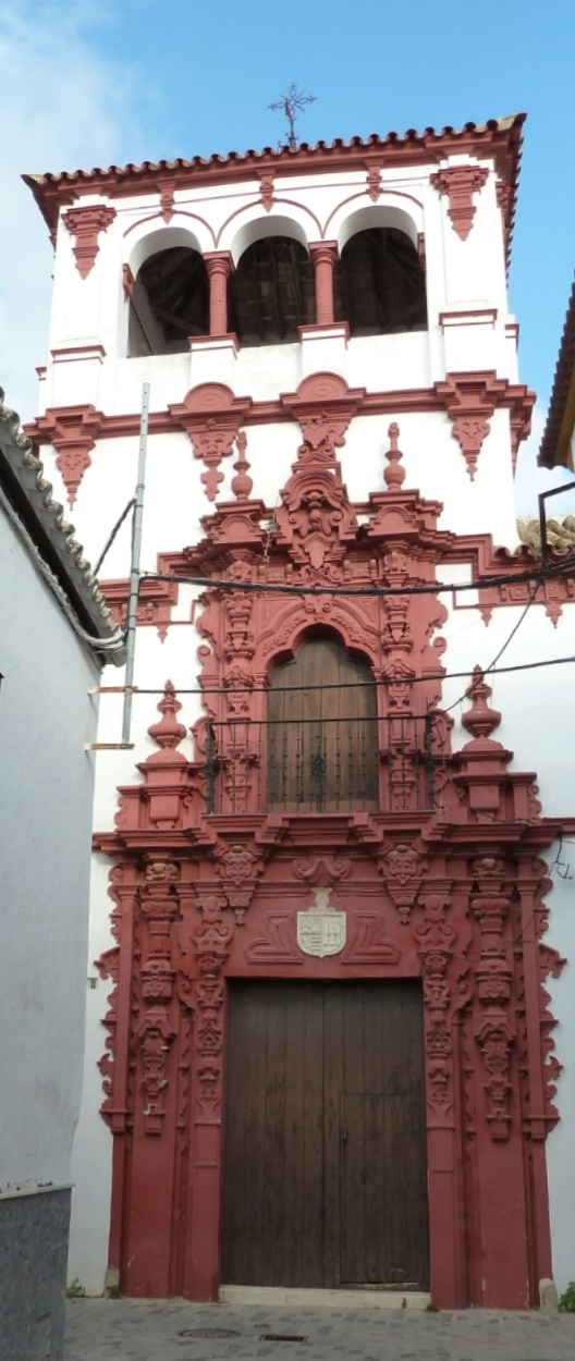 Casa Palacio de la familia de León Orbaneja. Fuentes de Andalucía. Sevilla. Segunda mitad del Siglo XVIII. Portada barroca y Torre del arquitecto Alonso Ruiz Florindo (1722-1786). En el centro escudo en mármol del Caballero de la Orden de Santiago D. Andres de León y Orbaneja López Pilares (1723-1797).